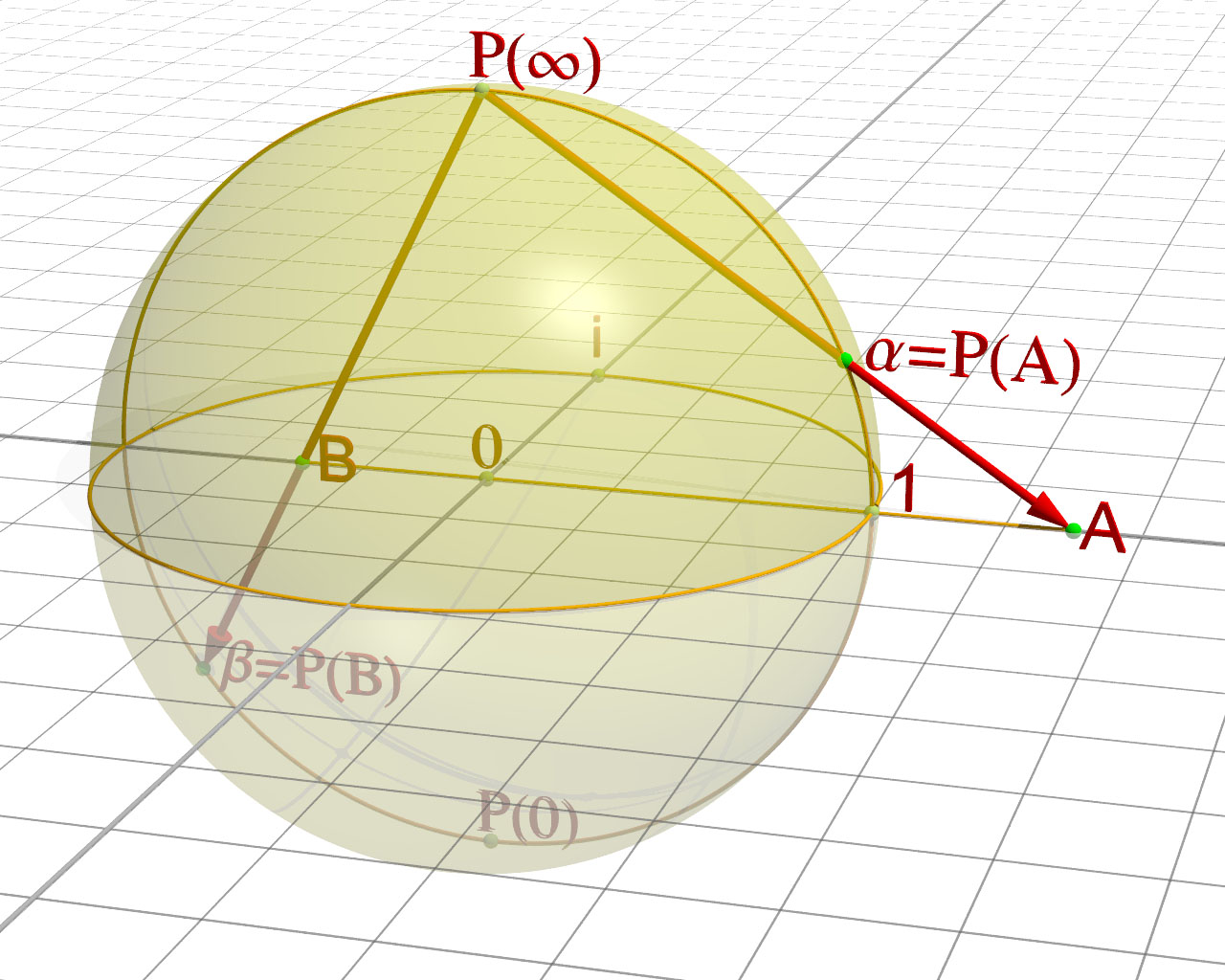 rendering of the graph of the Sphere of Rieman